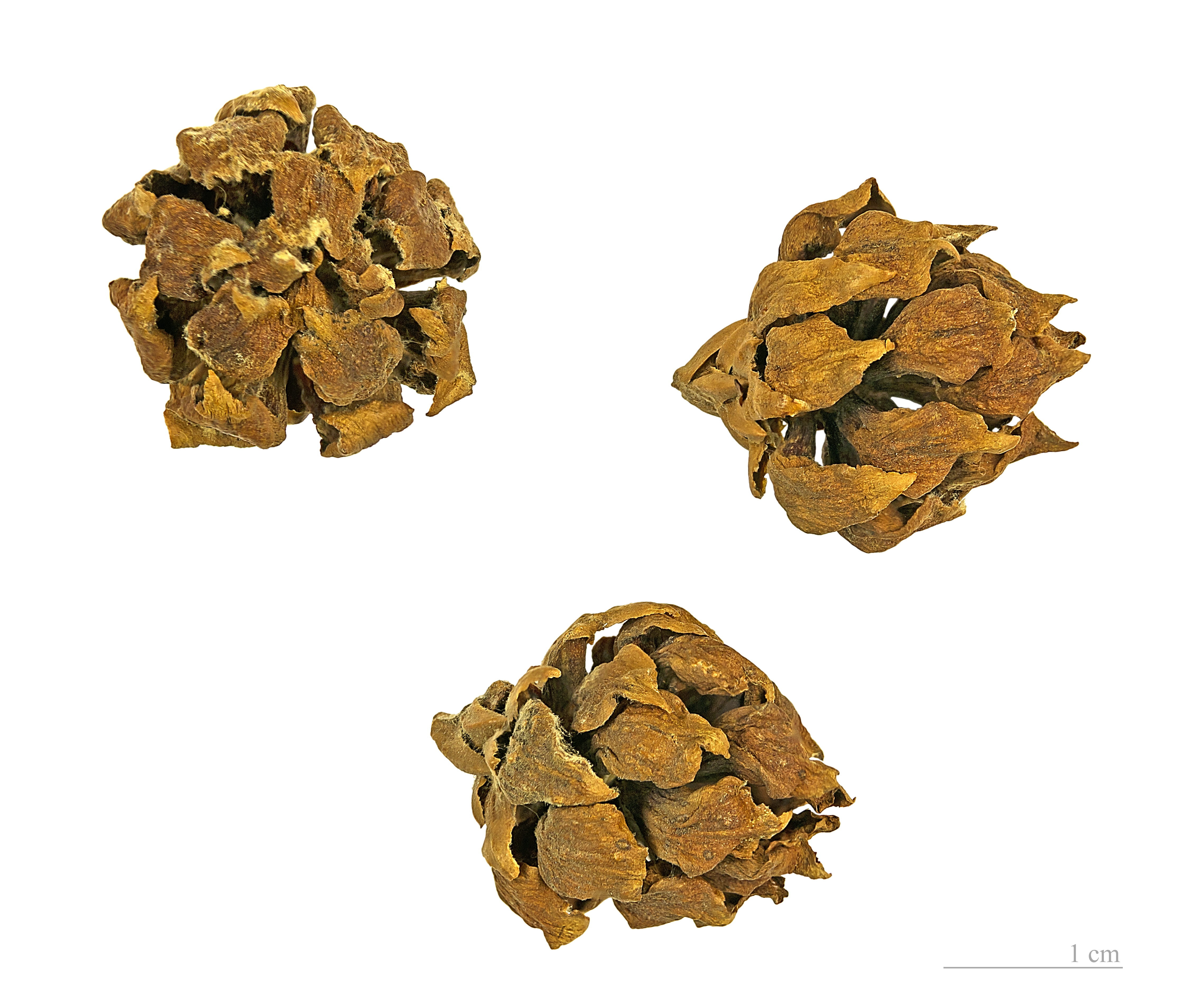 Cone of Athrotaxis selaginoides